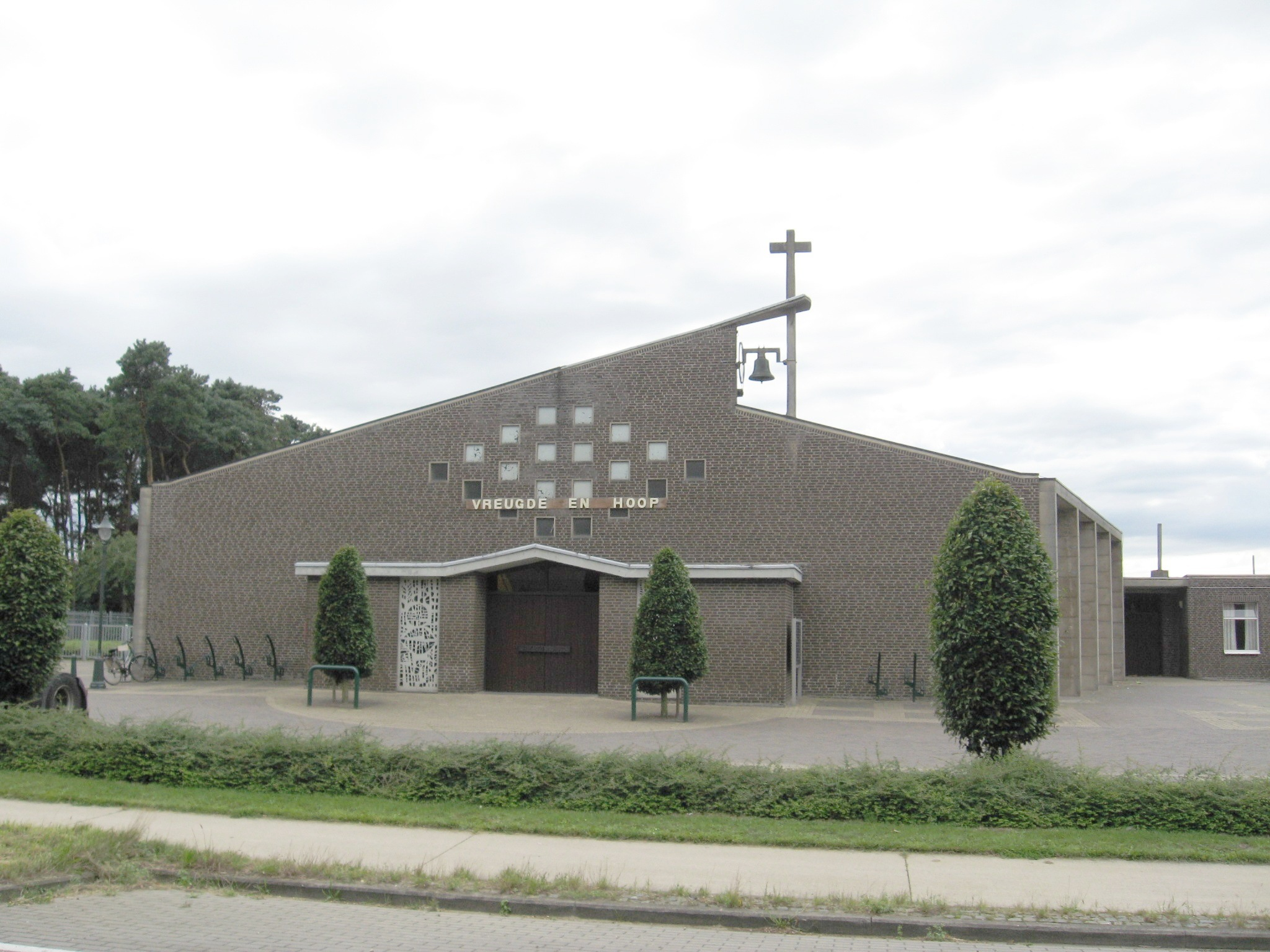 Church of Our Lady of the Sacred Heart in Bree (Vostert), Limburg, Belgium